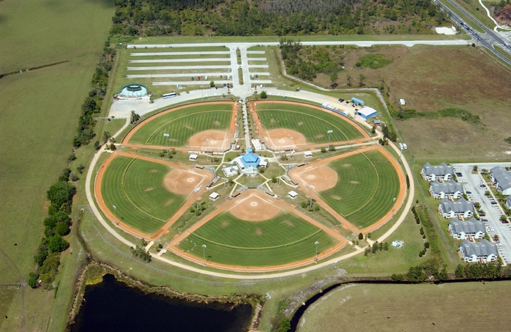 Osceola County Softball Complex